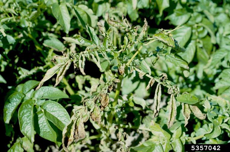 Potato plant infected with bacterial ring rot of potato (Clavibacter michiganensis subsp. sepedonicus), United States . Pied de pomme de terre atteint de flétrissure bactérienne (Clavibacter michiganensis subsp. sepedonicus), États-Unis